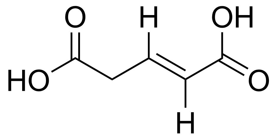 Skeletal structure of the trans isomer of glutaconic acid